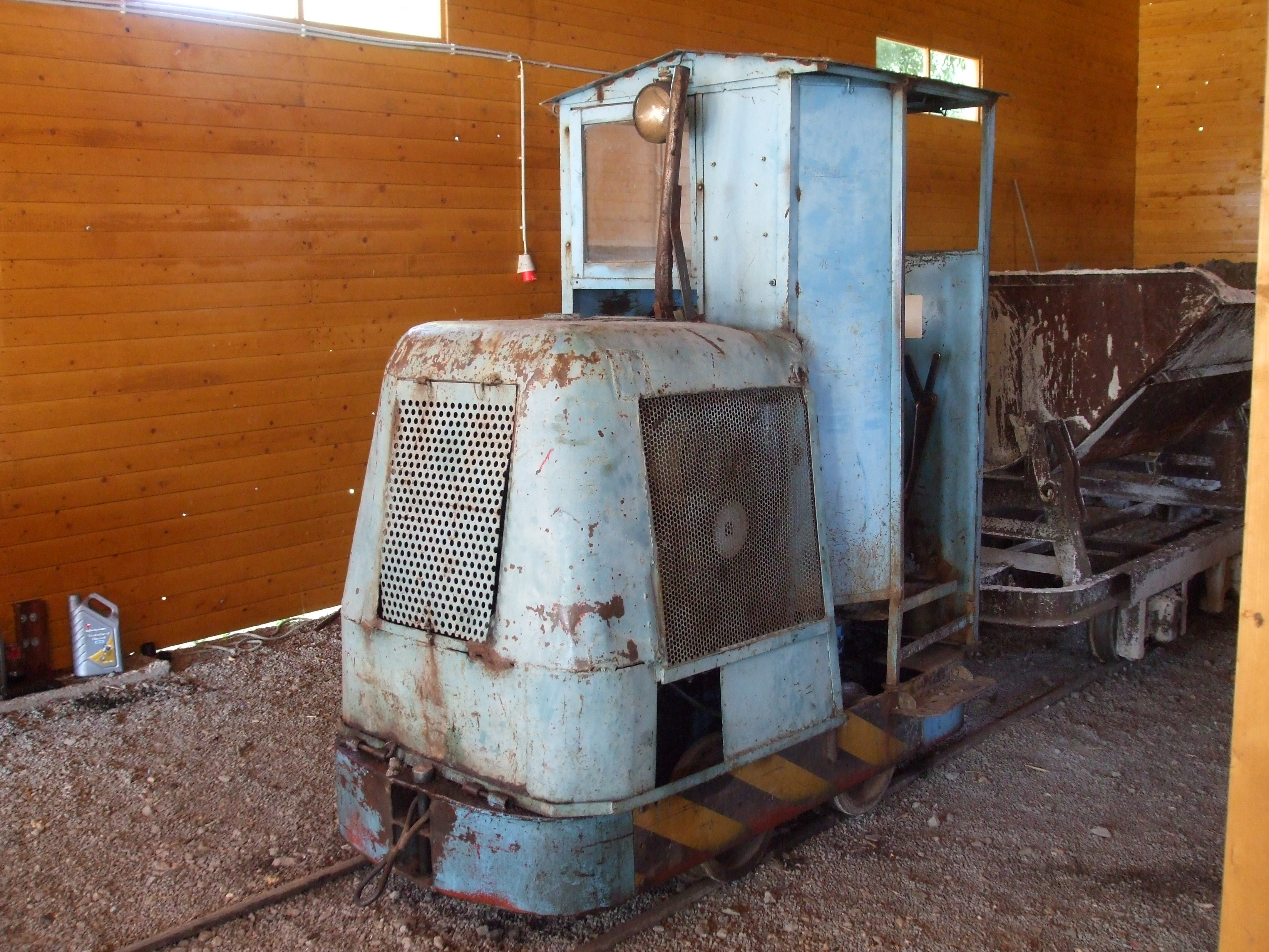 Motoric Tractor with Slavia engine in the Hortobágy Narrow Gauge Railway, Hungary.